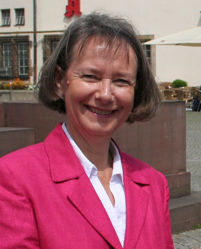 Evelyne Gebhardt, a German politican (SPD), in Stuttgart